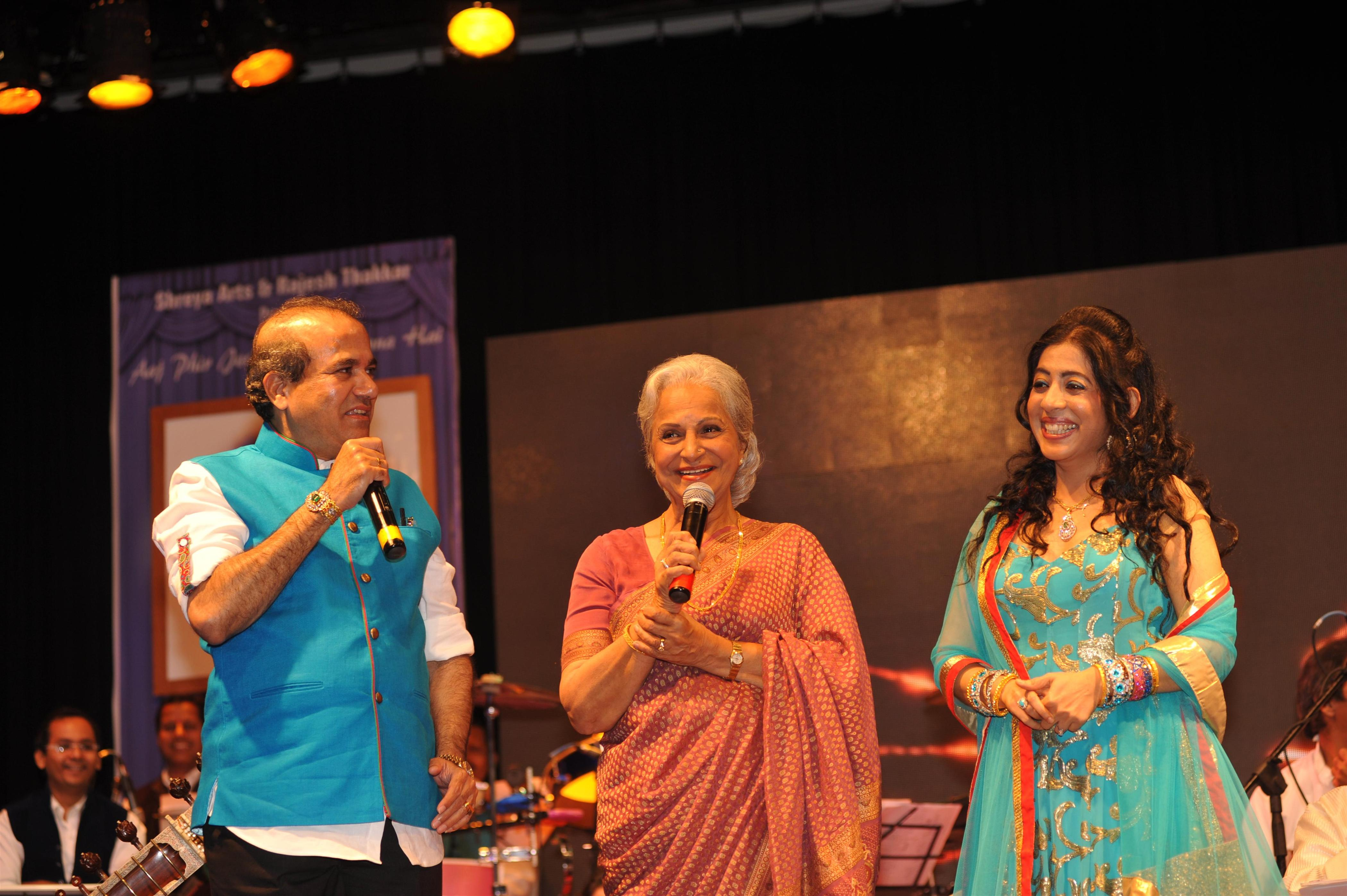 playback singer Sanjeevani and Suresh Wadkar on stage with Waheeda Rehman at a concert where they performed in her honour